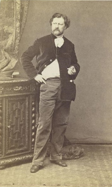 Title :Alexandre Bida (1813-1895) Description :vers 1855 Fonds Menier Author :Bingham Robert Jefferson (vers 1800-1870) Photo Credit :(C) RMN-Grand Palais (musée d'Orsay) / Hervé Lewandowski Period :19th century, période contemporaine de 1789 à 1914 Technic/Material :print on albumen paper Height :0.085 m. Length :0.052 m. Institution: Paris, musée d'Orsay Acquisition : Don J.J.Journet, 1986 Image number : 09-538760 Inventory Number : PHO1986-129-11-144